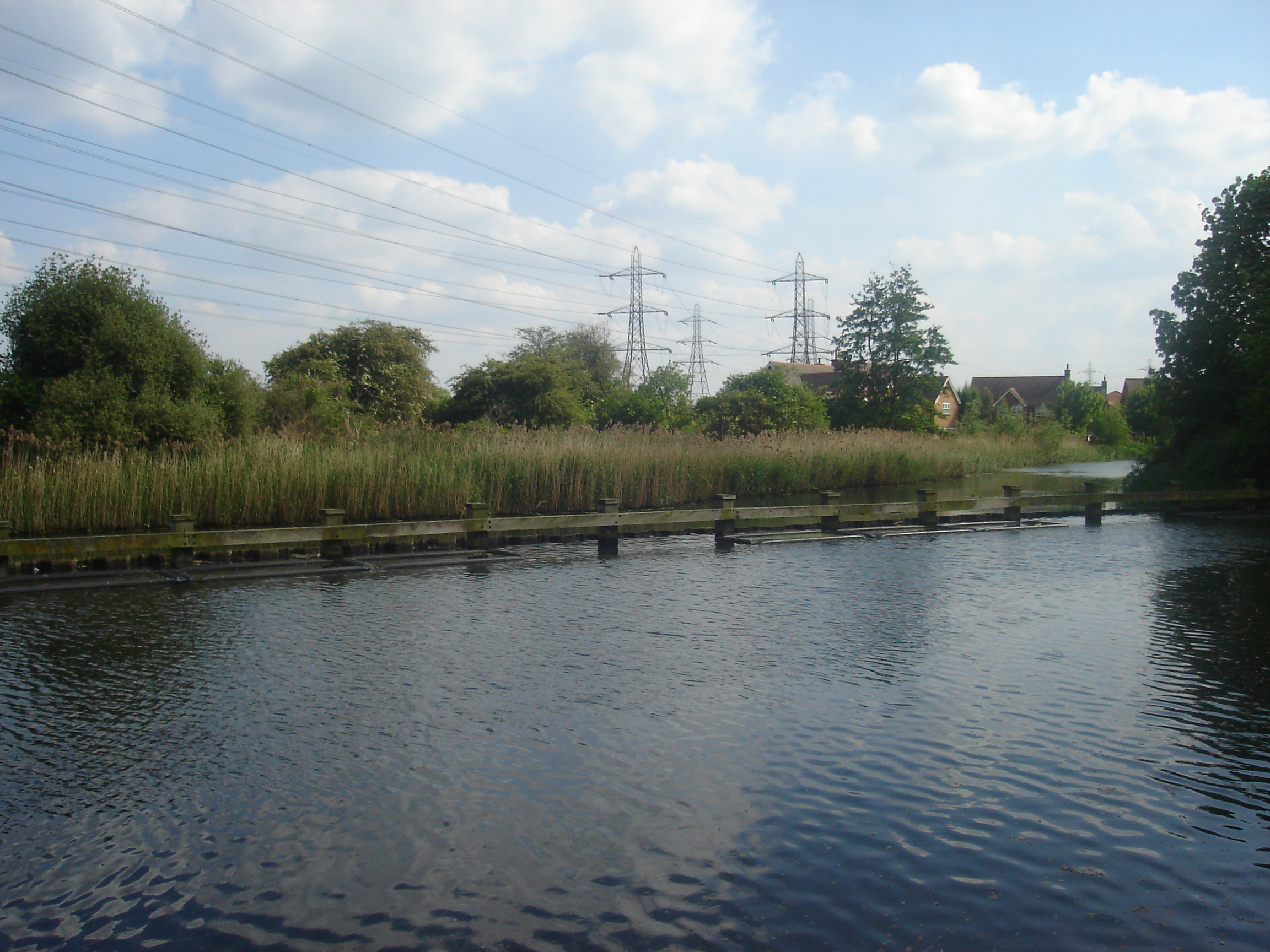 Picture of the River Lee Navigation above Enfield Lock. The River Lea proper can be seen in the background